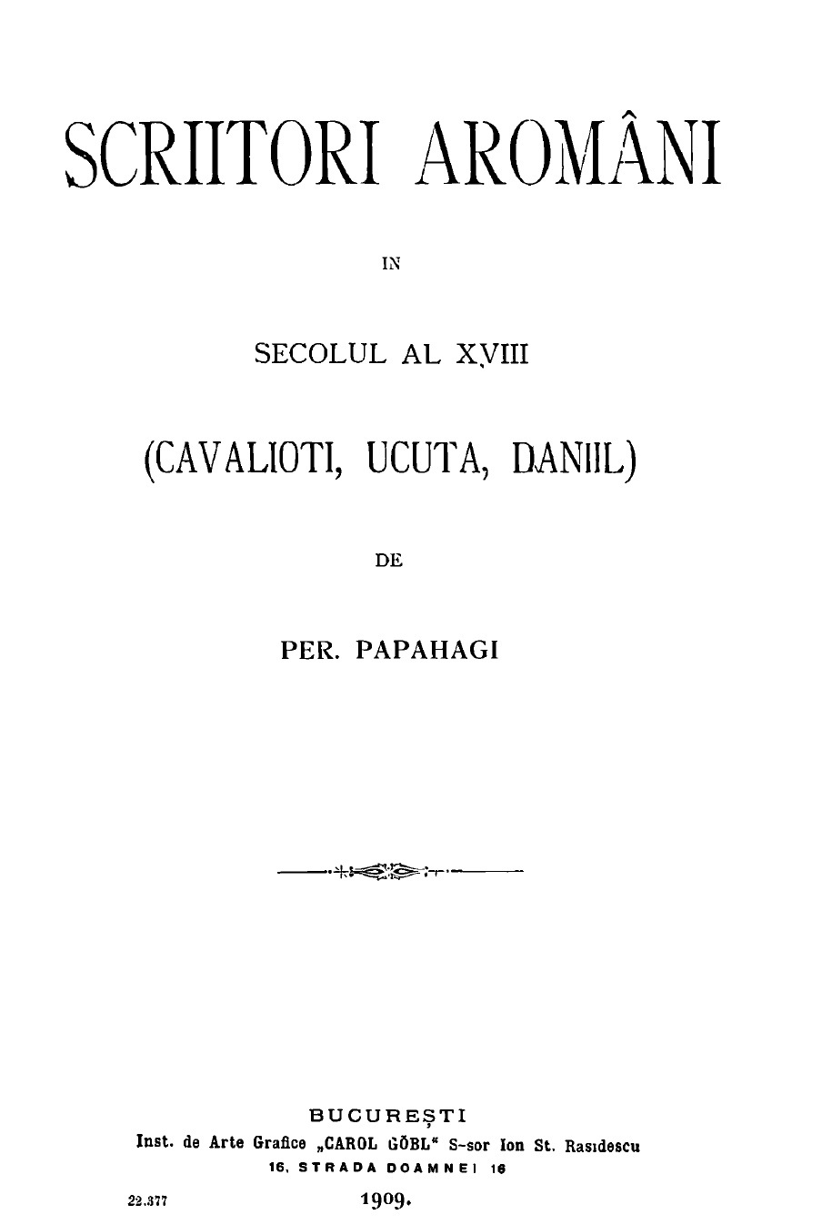 Scriitori Aromani 1909